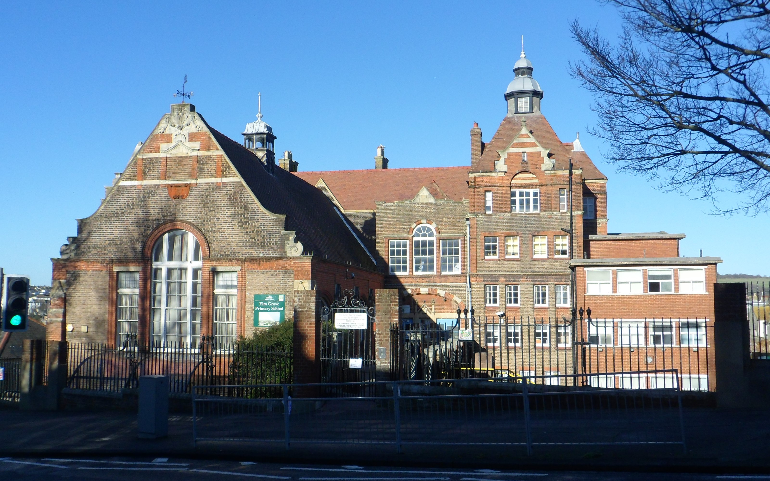 Elm Grove Primary School, Elm Grove, Brighton, City of Brighton and Hove, England. Built as a Board School in 1893 by Thomas Simpson.